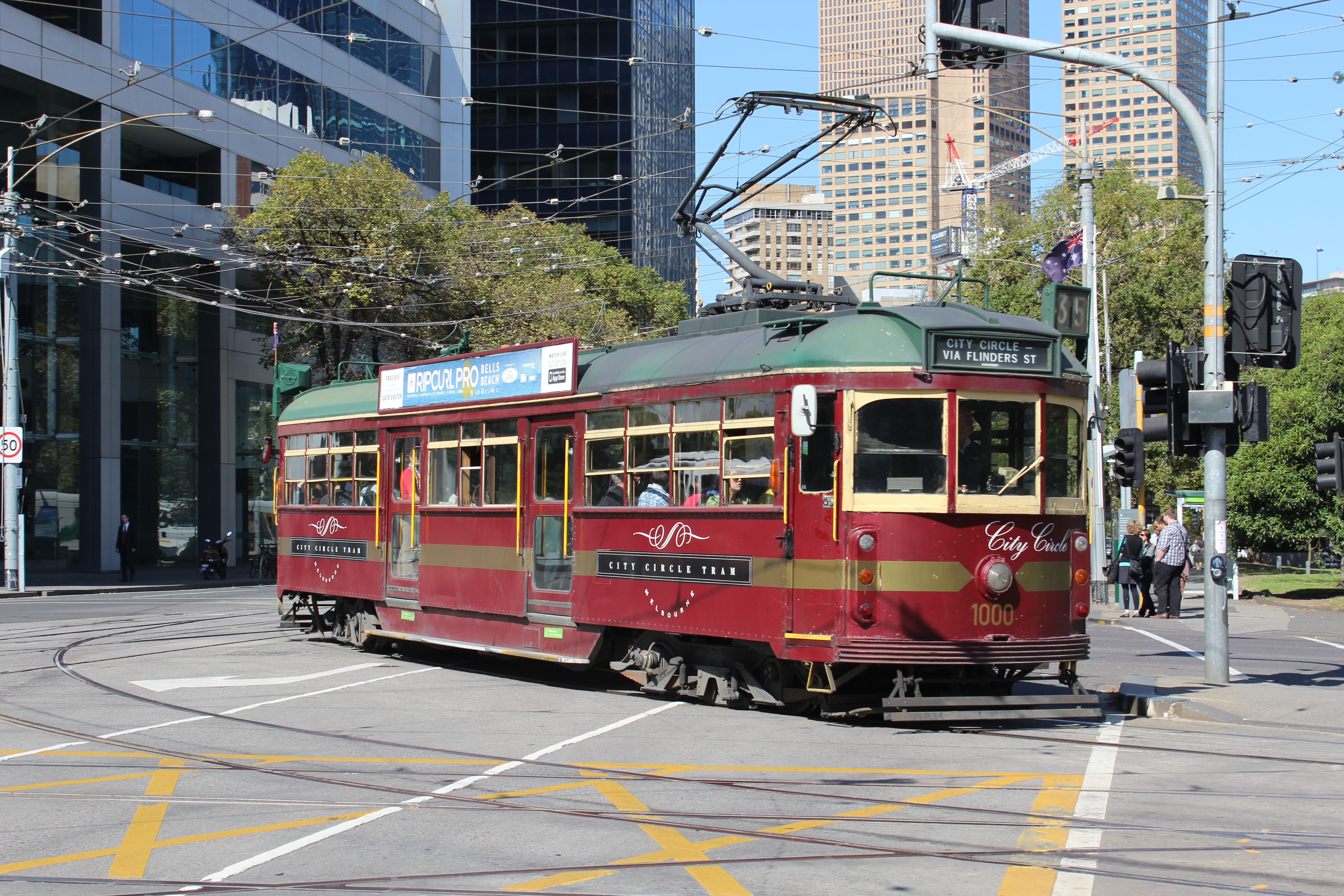 W6 1000 turning from Nicholson Street into Victoria Parade on the City Circle, 2013.